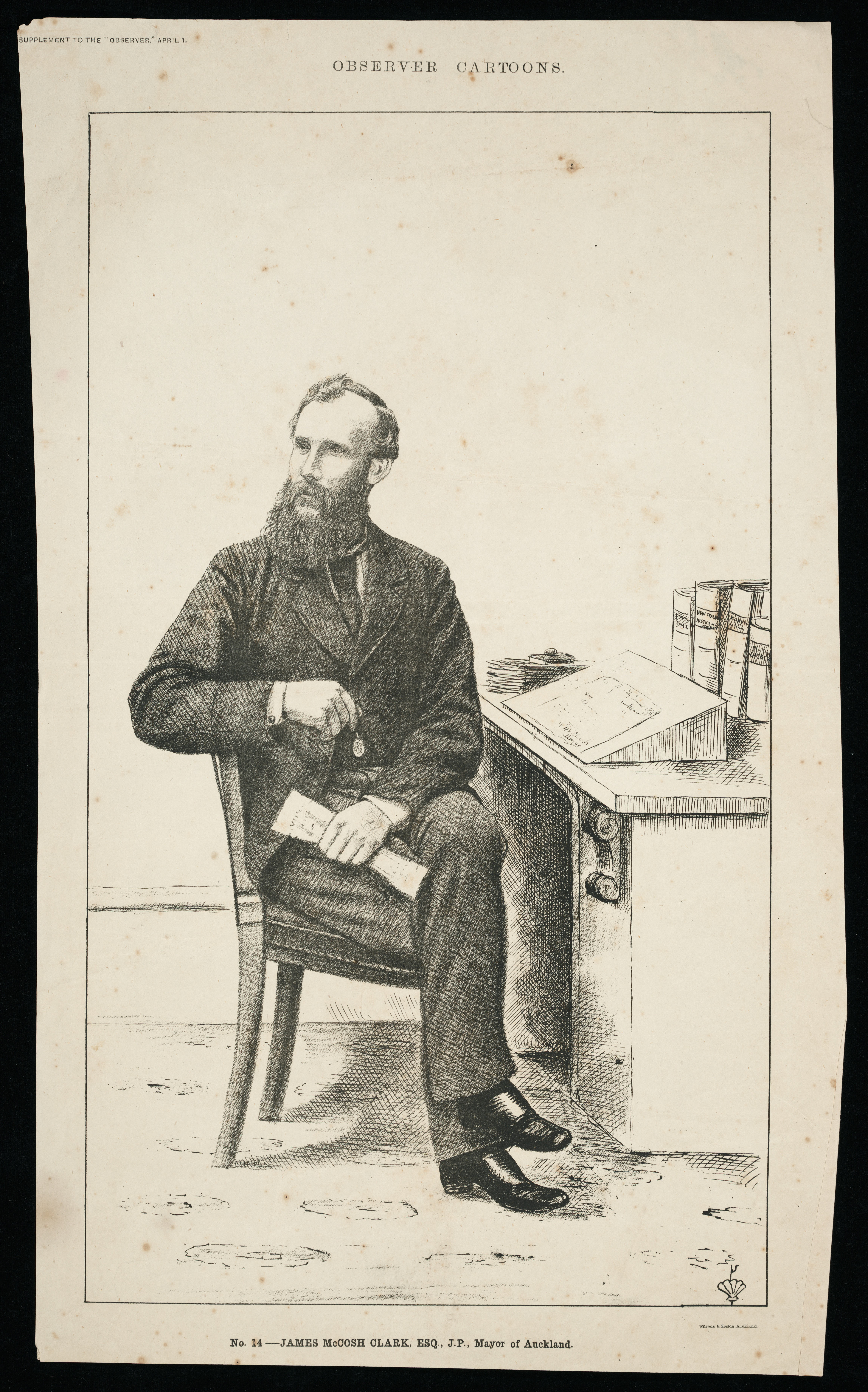 Shows a portrait of a bearded James McCosh Clark seated at a desk, but turned away from it towards the viewer.